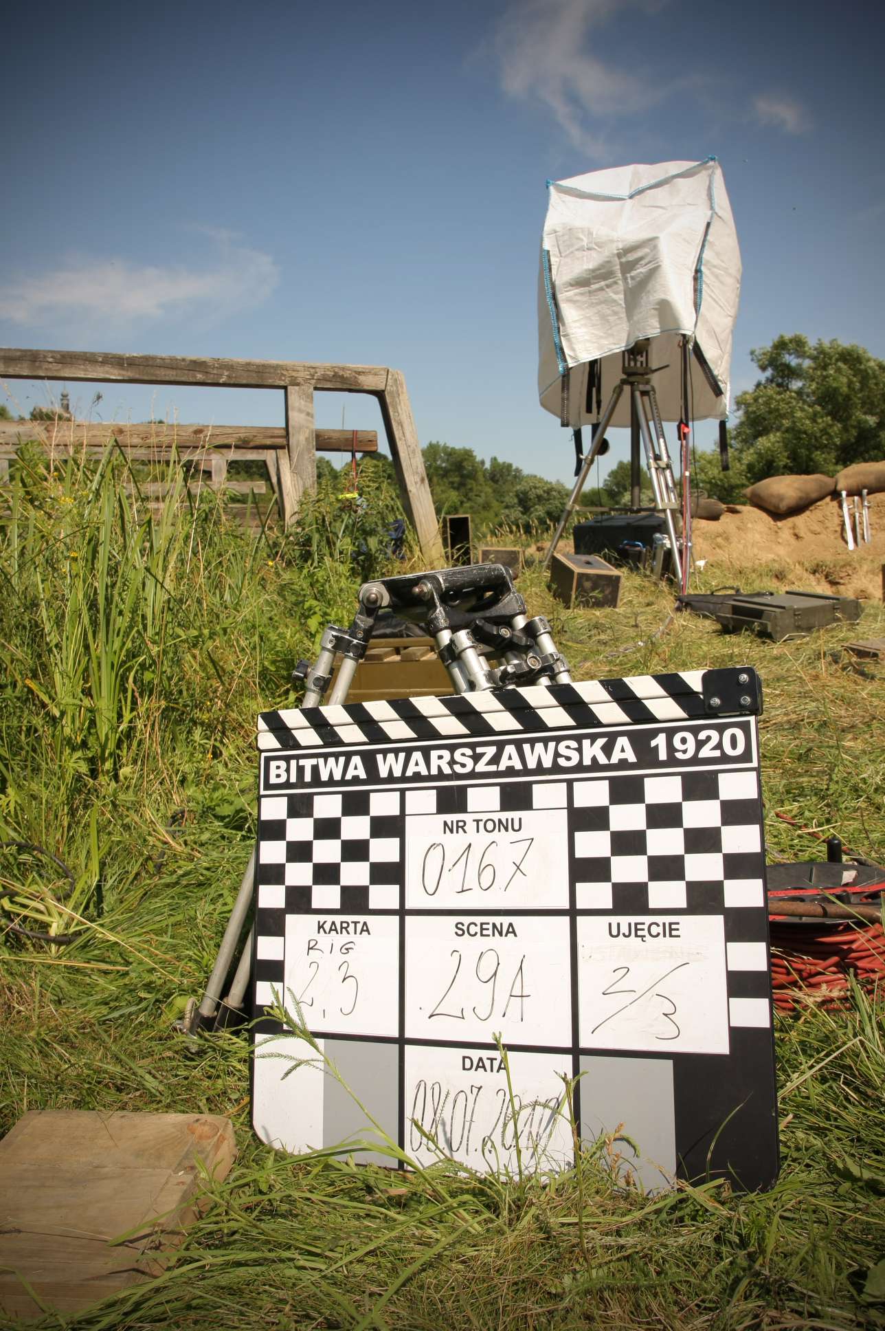 Clapperboard on Jerzy Hoffman's movie "Bitwa warszawska 1920" set in Lublin, June 8th 2010